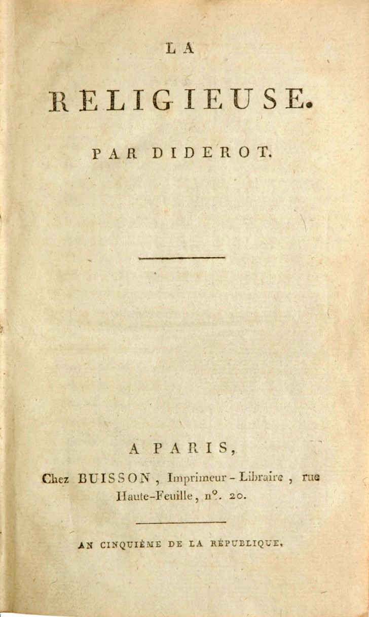 Titul book La Religieuse. Diderot, Denis. 1796